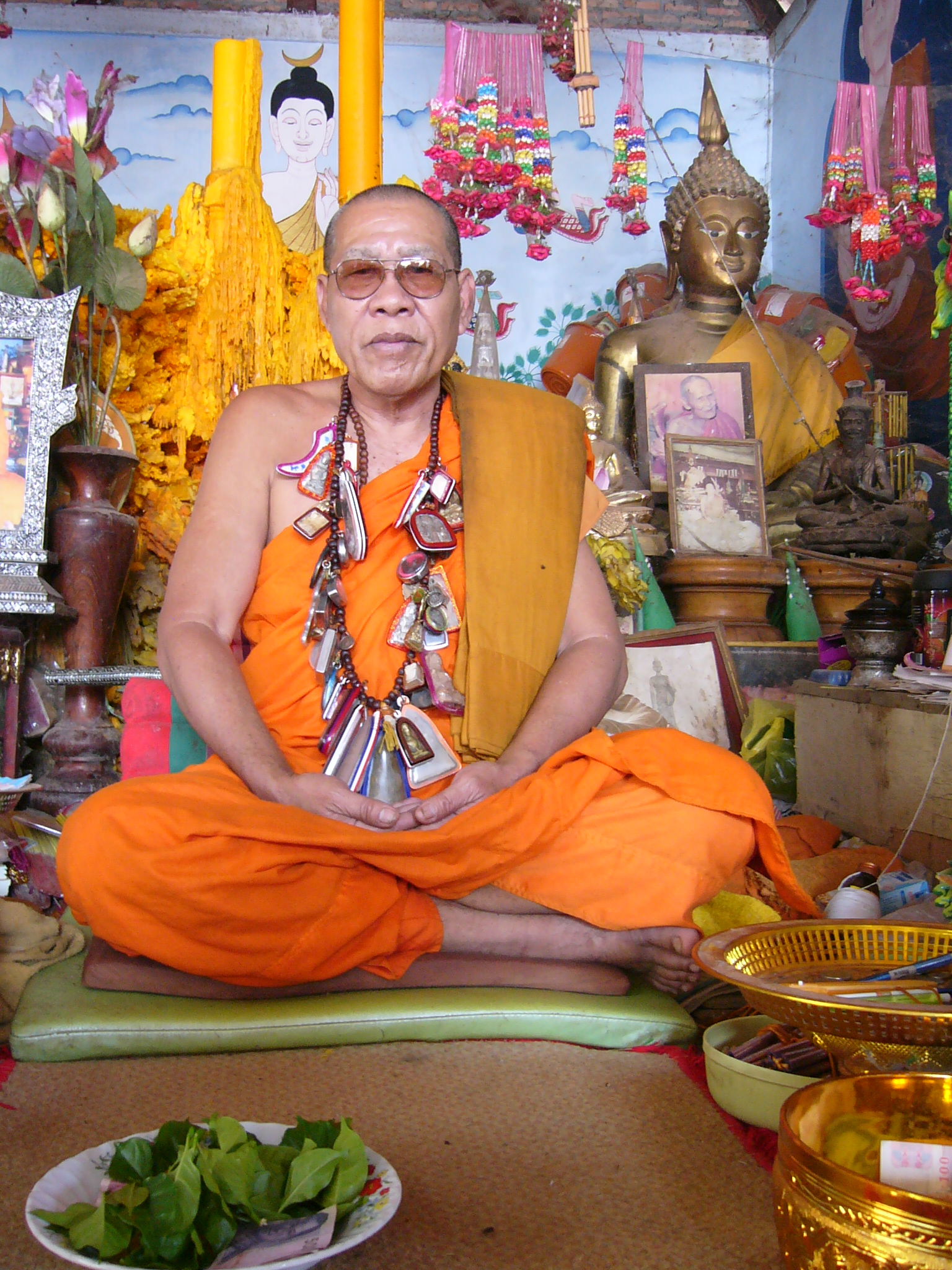 Phu Pheng, current abbot of Wat Kham Chanot, Amphoe Ban Dung 41190 (อำเภอบ้านดุง), Udon Thani Province, Thailand - wearing several sacrificed Phas on a necklace (only worn on special occasions).